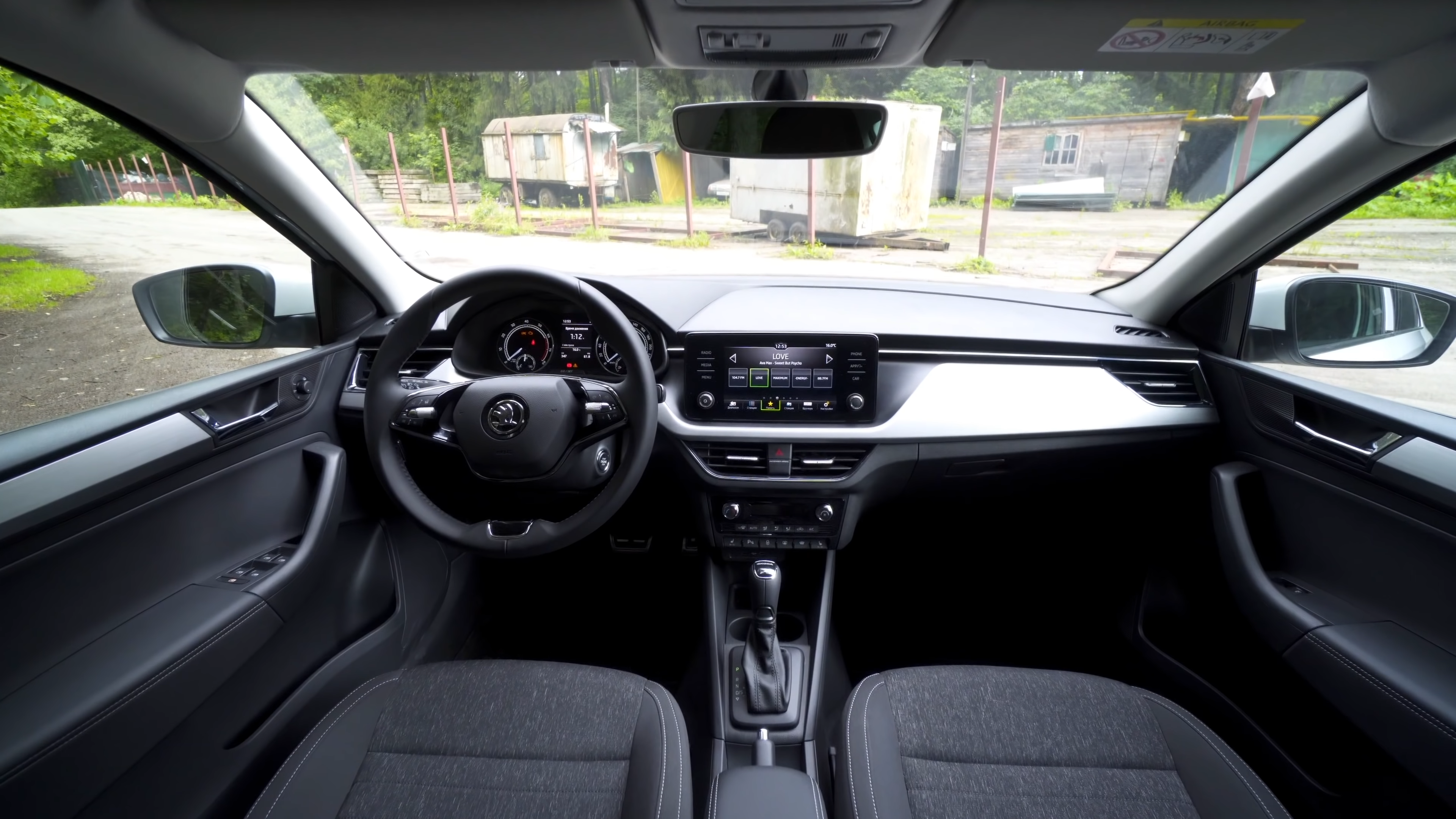 Škoda Rapid (2020 facelift, Russia) interior